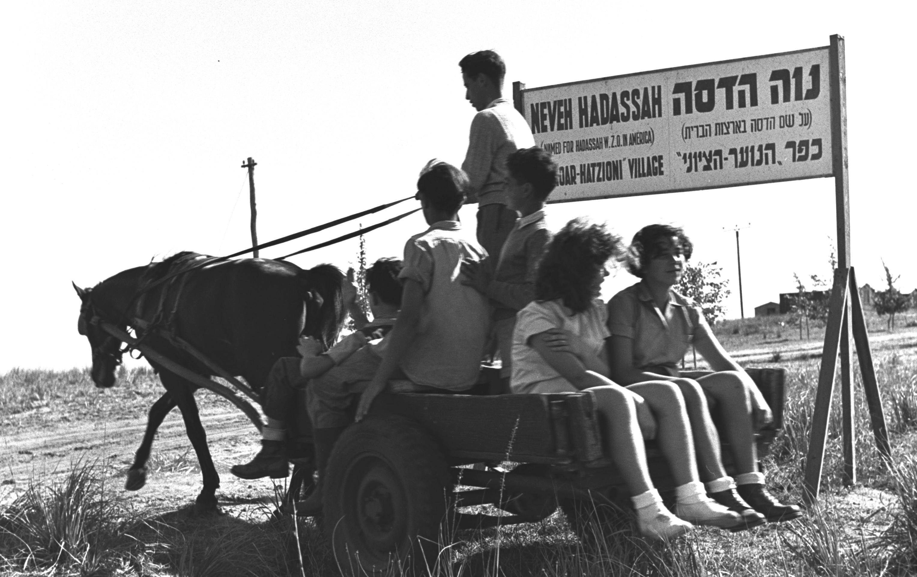 Original Description: CHILDREN RIDING ON A HORSE CART AT THE "NEVE HADASSAH" YOUTH VILLAGE.